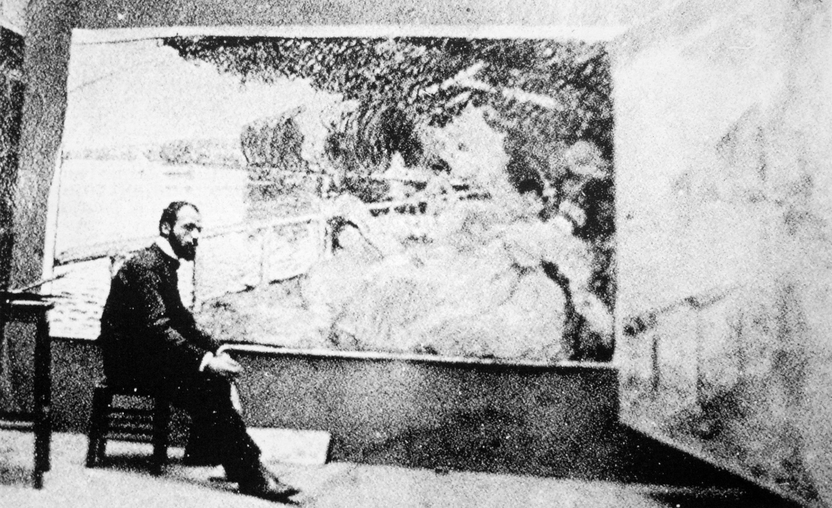 Robert Antoine Pinchon, 1906, sitting in front of a study for La Bouille (Restaurant champêtre de La Bouille), and the full size painting to the right of the photograph. Panel for L'Alhambra-Théâtre.